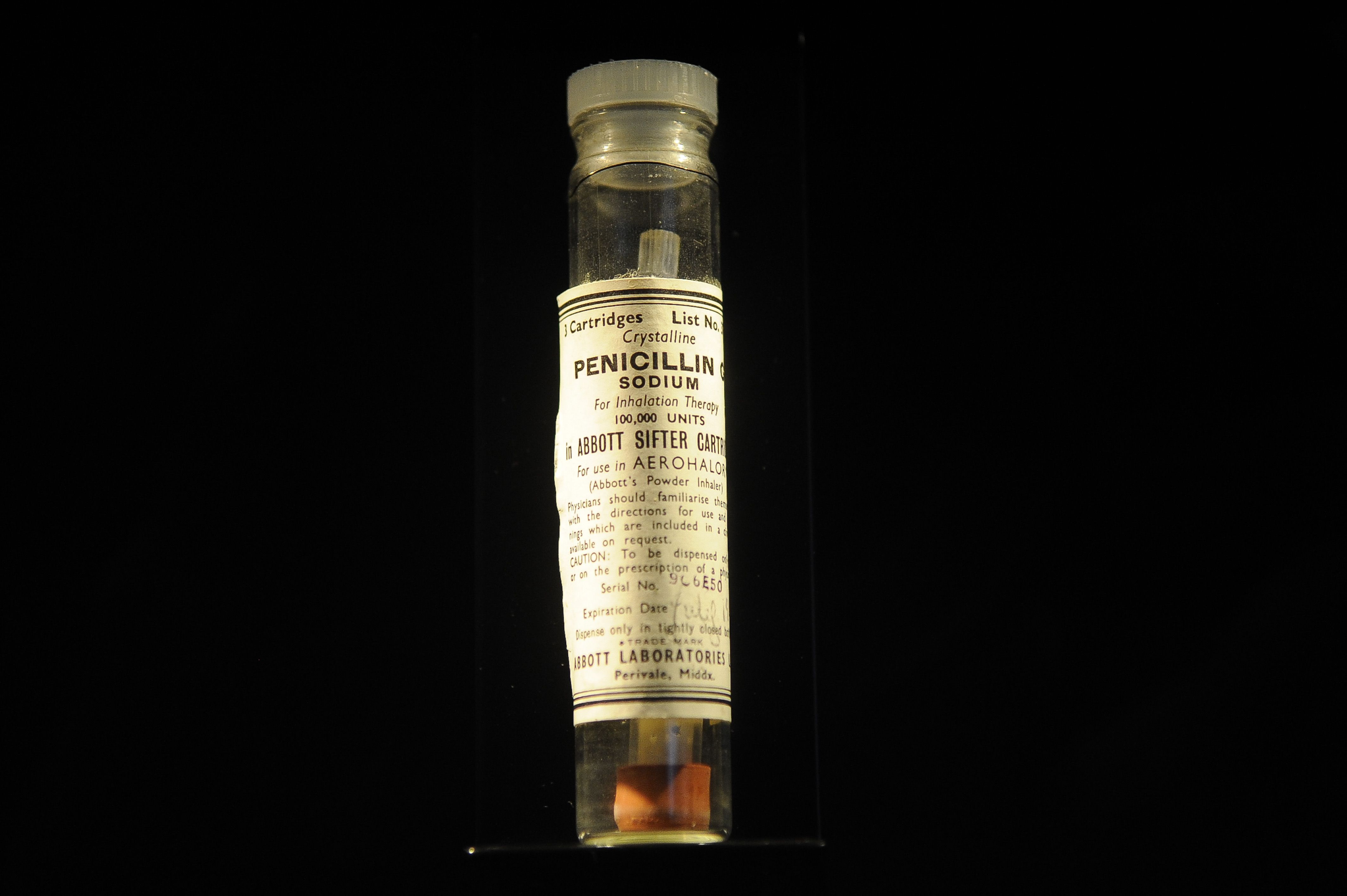 Photo by Tomaz Silva/Agência Brasil, published under a CC3.0 license